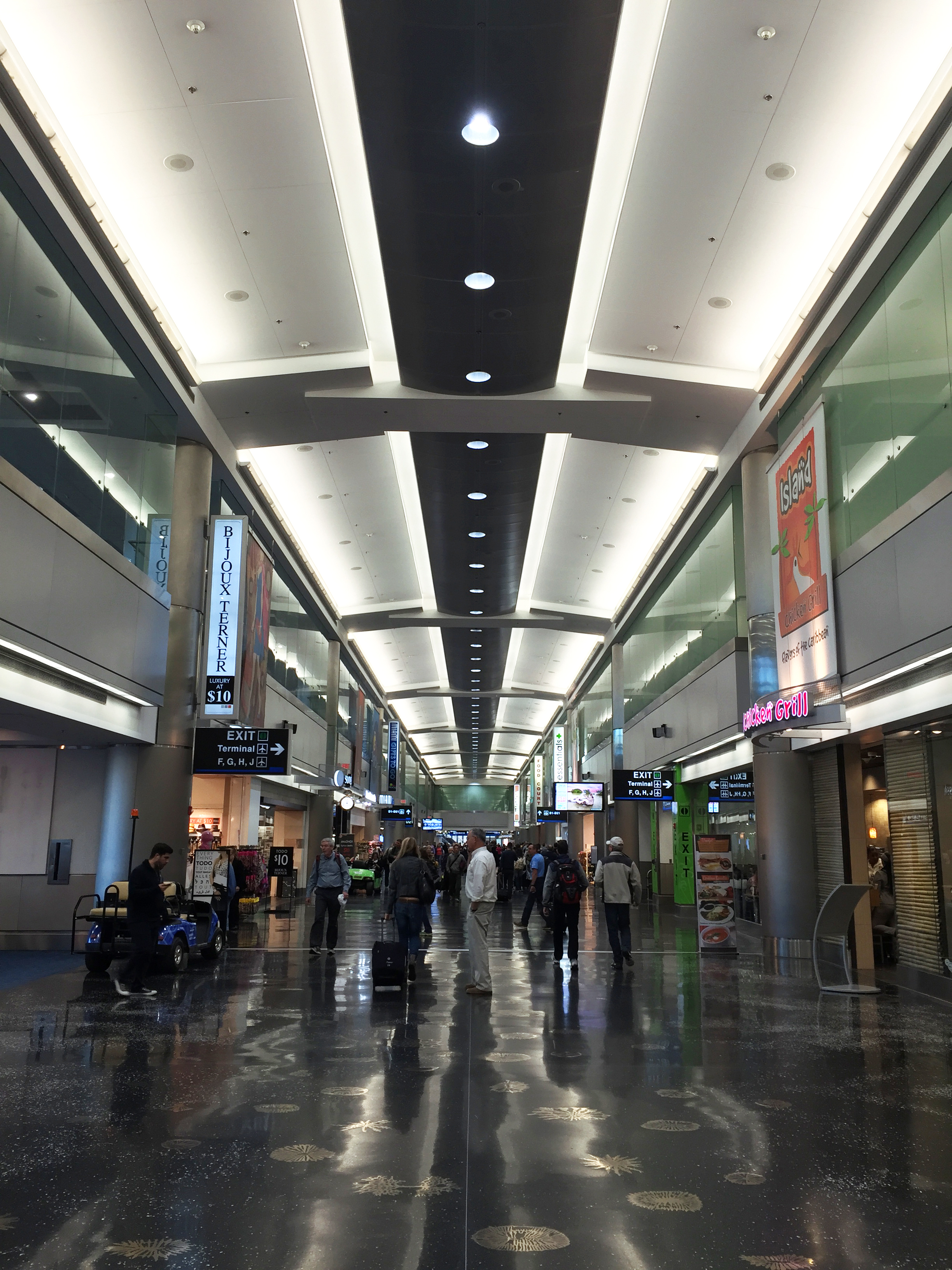 Interior view of concourse D at Miami International Airport.